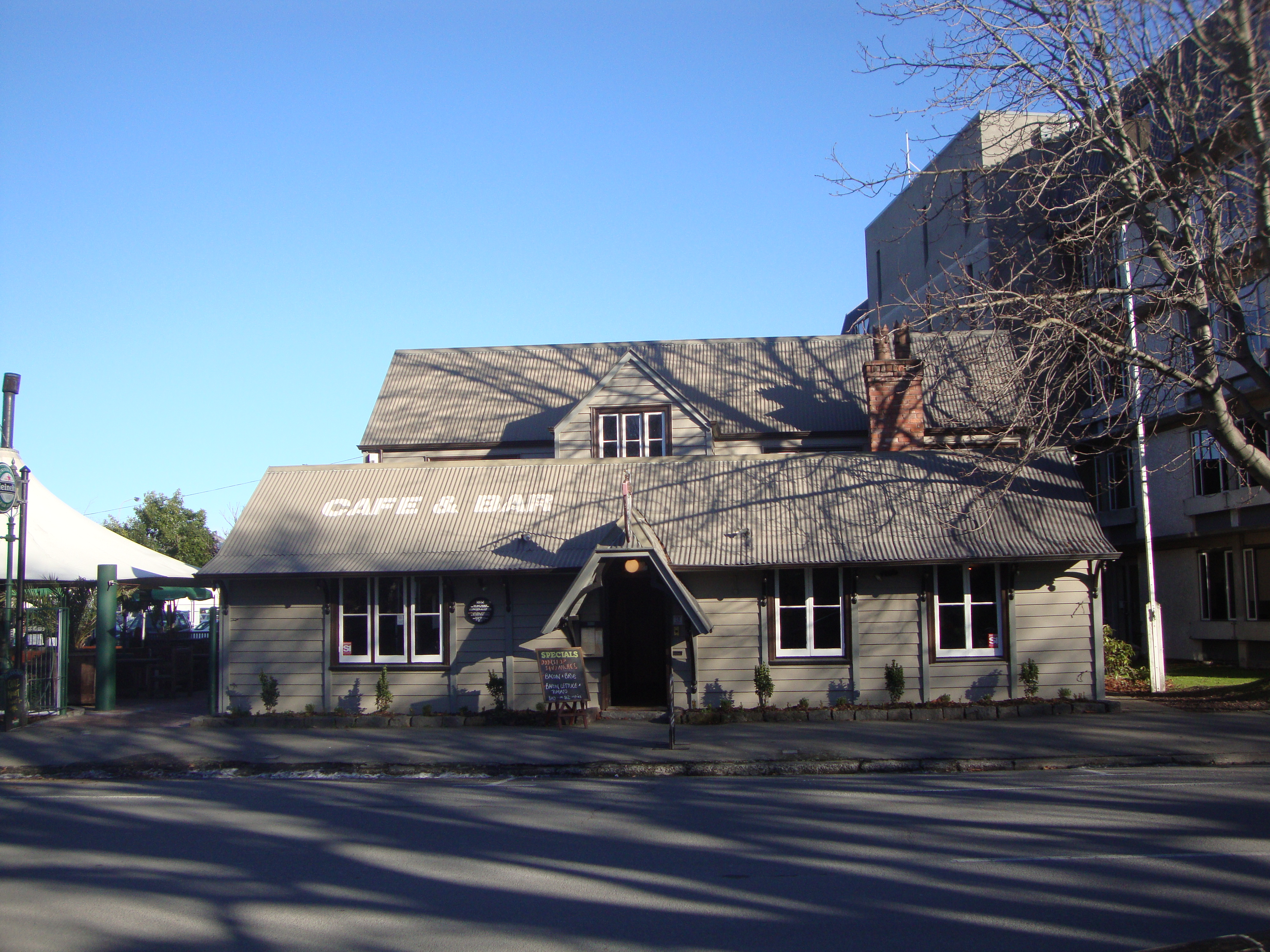 Pegasus Press Building in Oxford Terrace, Christchurch, in August 2011.